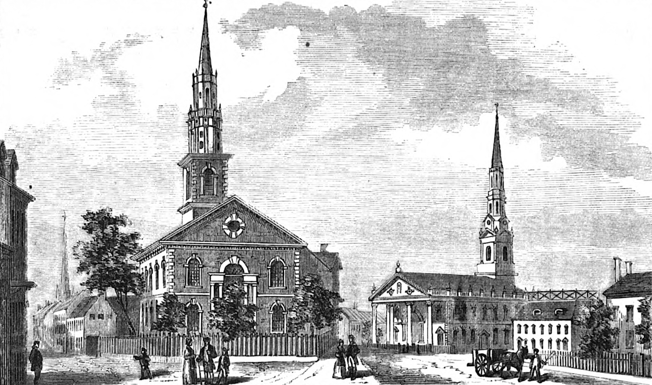 Caption reads: "View of the Brick Presbyterian Church and vicinity in 1840."